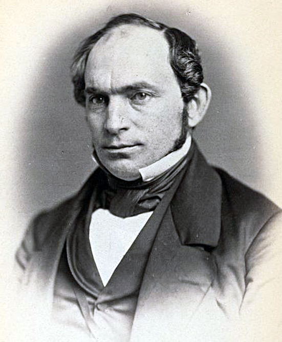 Jacob R. Wortendyke, US Representative from New Jersey